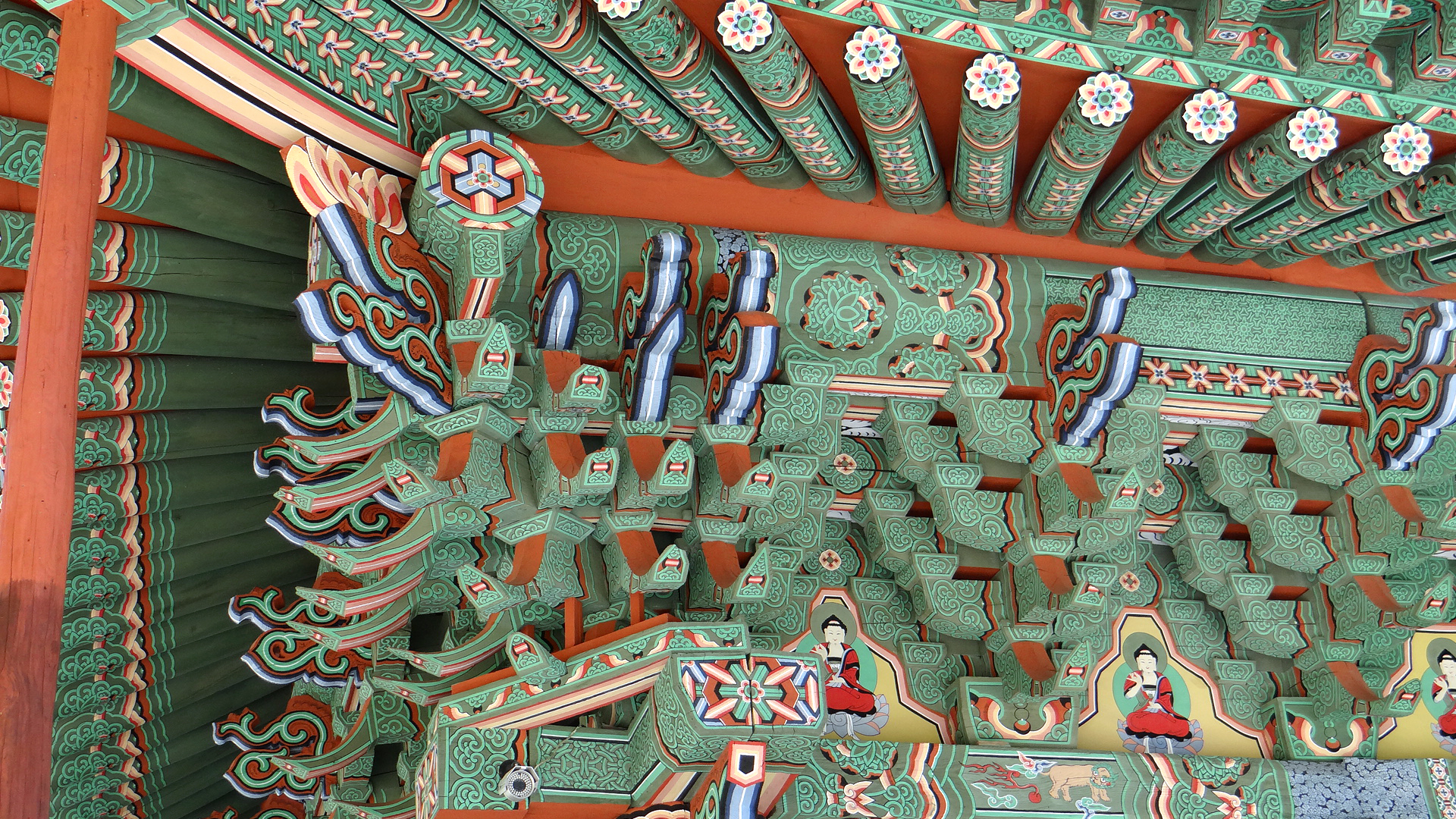 Daeungjeon (main worship hall) at Gaeamsa, a small, quiet Korean Buddhist temple in Buan County, North Jeolla Province, South Korea built in 634 C.E. during the Baekje Dynasty and expanded in 1313. The temple was burned down during the Imjinwaeran Japanese Invasion and reconstructed in 1658.